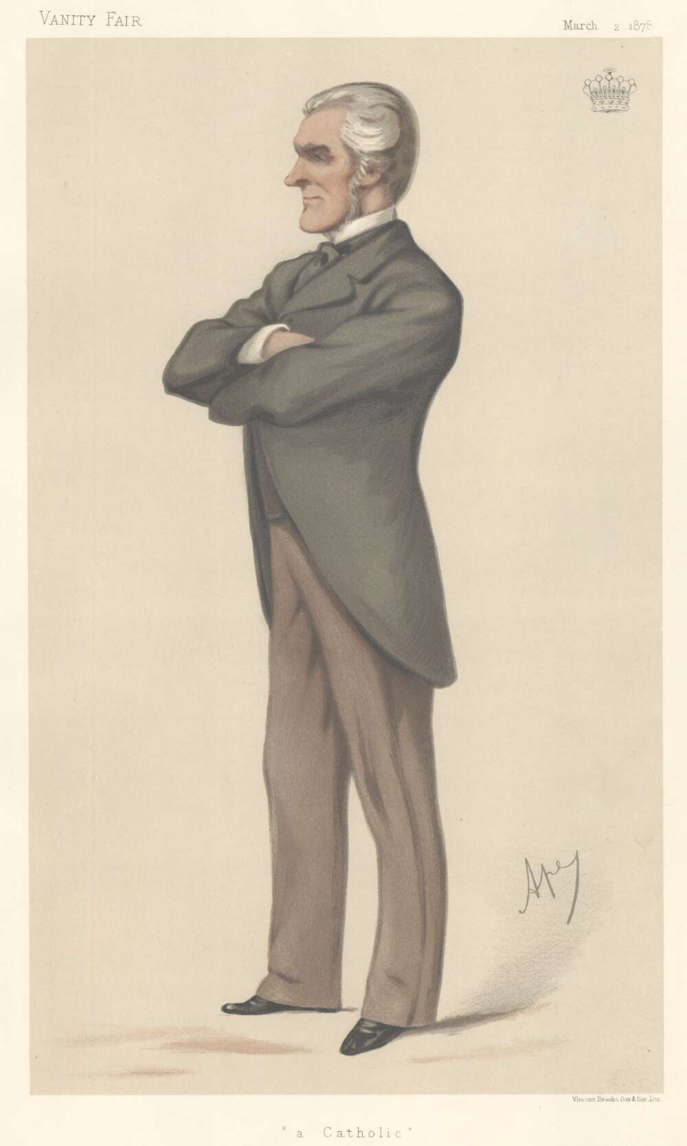 Caricature of Rudolph Feilding, 8th Earl of Denbigh. Caption read "a Catholic".